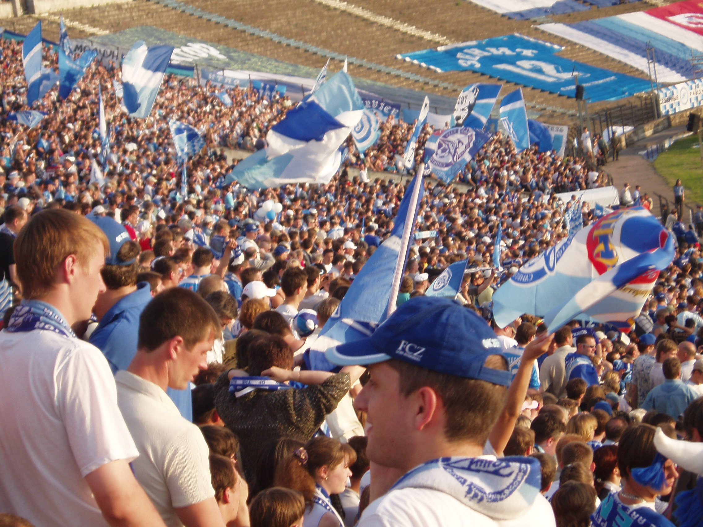 FC Zenit Saint Petersburg supporters at the match against Dynamo at the Kirov Stadium on 6 July 2006.